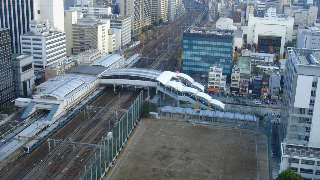 Tamachi Station seen from Granpark Building, looking northeast.